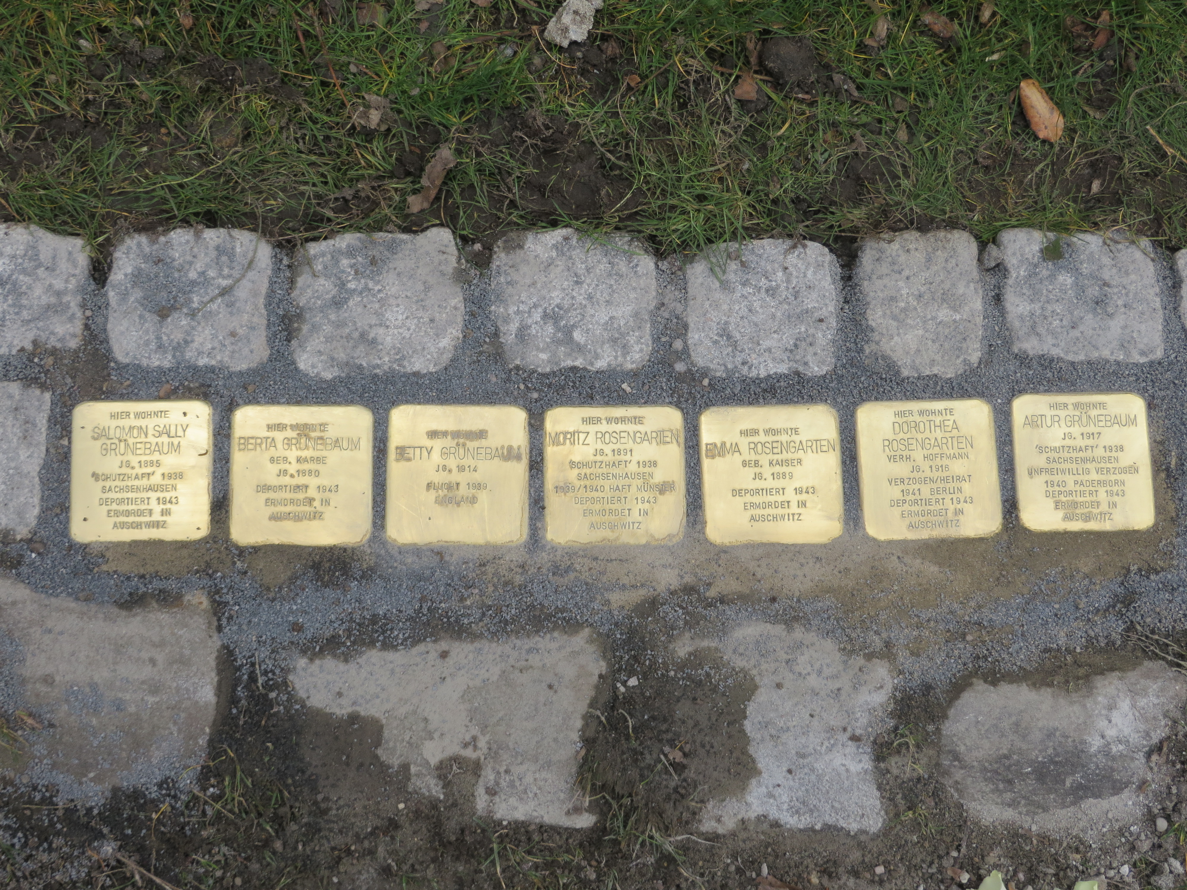 Stolpersteine at house Am Berge 3 in Witten, GermanyEsperanto: Stumbligaj ŝtonetoj ĉe domo Am Berge 3 en Witten, Germanio